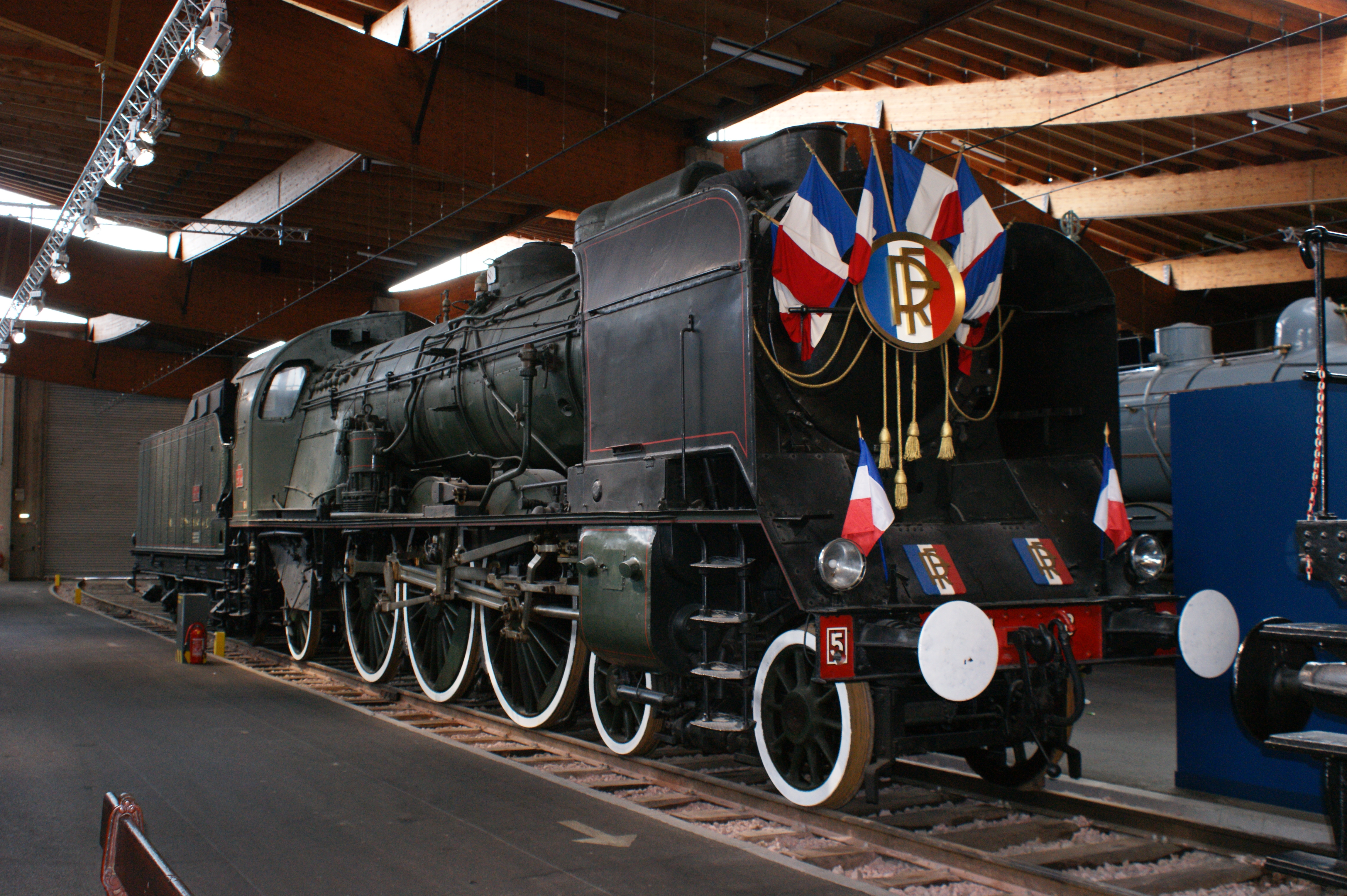 PLM 4-6-2 No.6143, built by Cail 1911, became 231A43 and rebuilt 1930 to No.231E.43 and again in 1948 to 231H.8. 3/09.